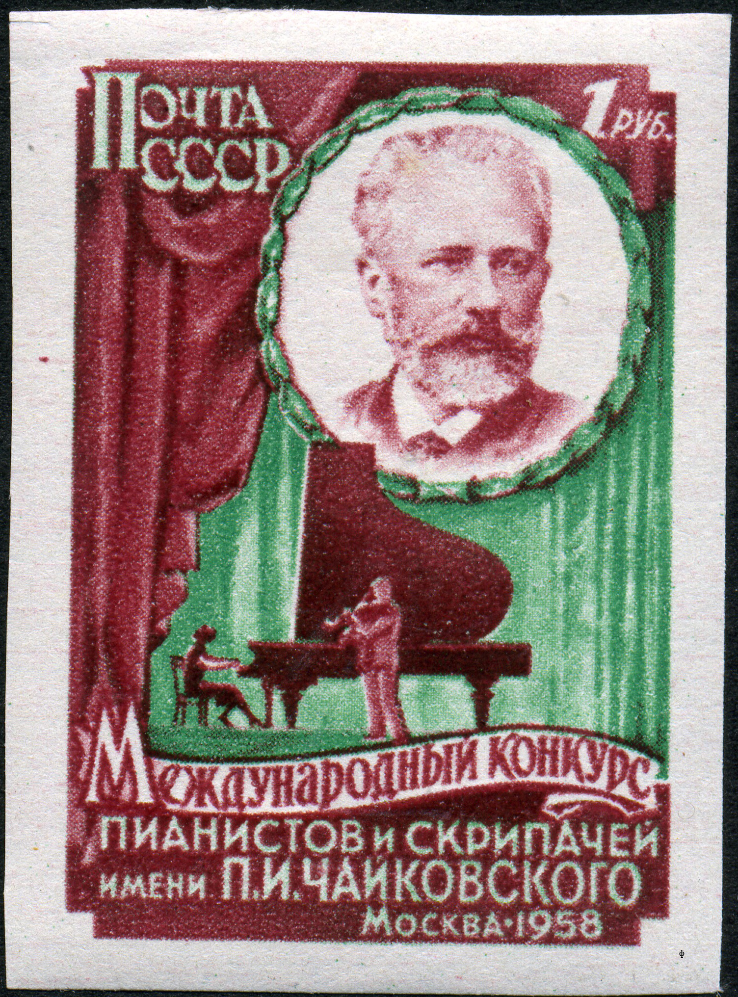 Sowiet stamp issued on March 18, 1958 on the occasion of the first edition of the International Tchaikovsky Competition